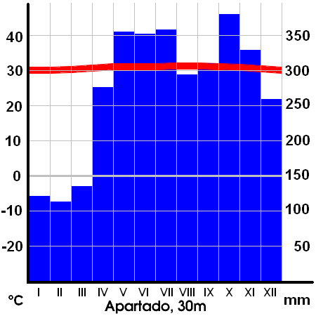 Rainfall and average max. temperature for Aportado, Colombia °Celsisus and millimeters. Software: Data